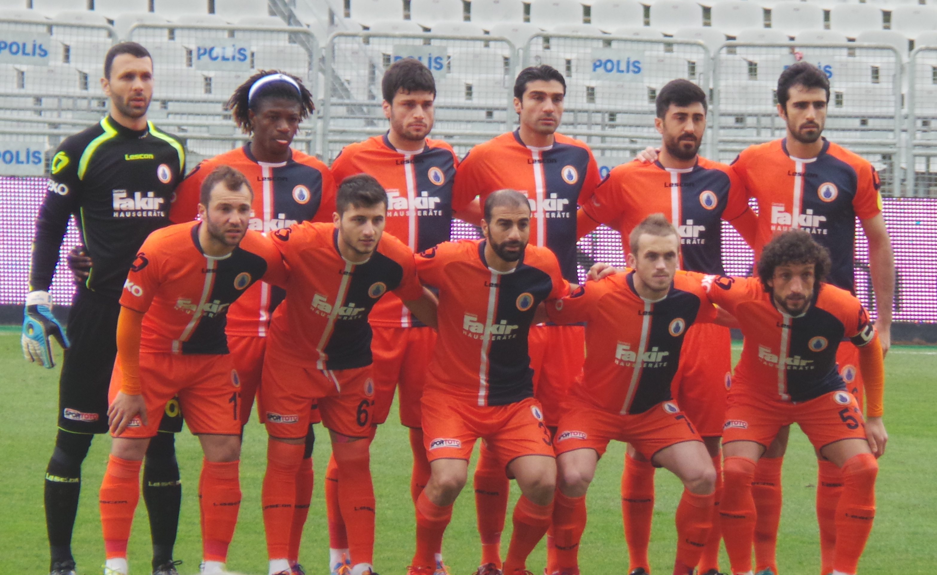 İstanbul Büyükşehir Belediyespor football team in 2013-2014 season. From left to right: Back row - Oğuzhan Bahadır, Mohamed Bangura, Orhan Taşdelen, Mustafa Sarp, Mahmut Tekdemir, Gençer Cansev Front row - Murat Akın, Enver Cenk Şahin, Sedat Ağçay, Edin Višća, Rızvan Şahin